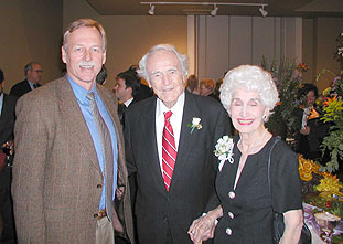 Congressman Vic Snyder visited with former Arkansas Governor Sid McMath and his wife, former Arkansas First Lady Betty McMath, shortly after McMath received the Arsenal Award from the MacArthur Museum of Arkansas Military History on November 7, 2002.